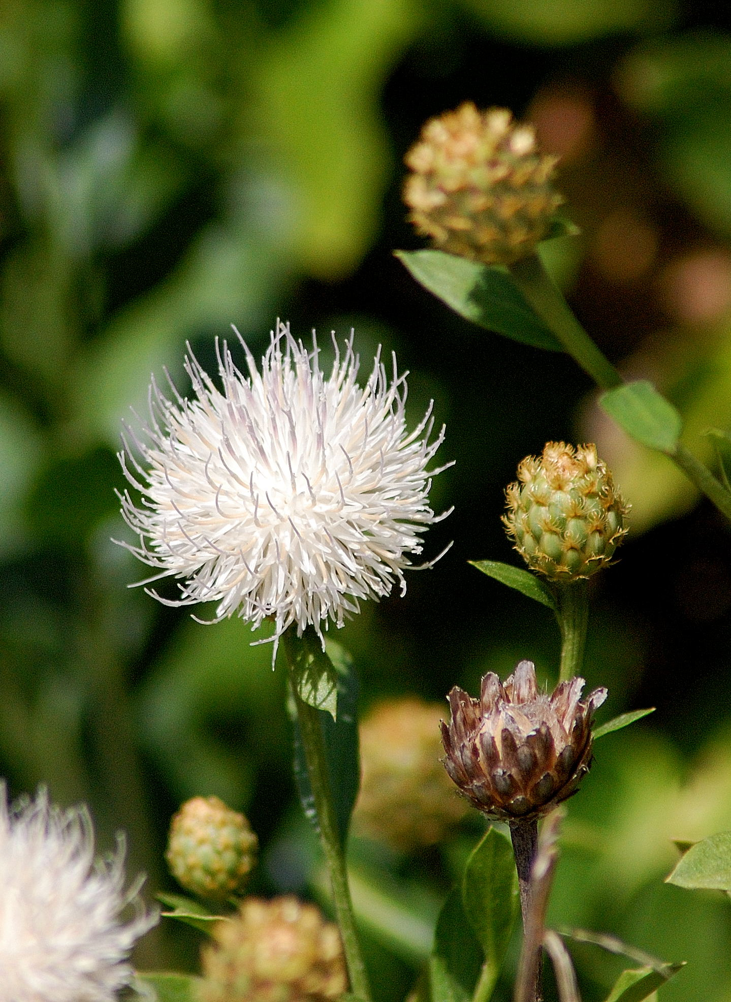 Cheirolophus webbianus. Detail of an inflorescence.